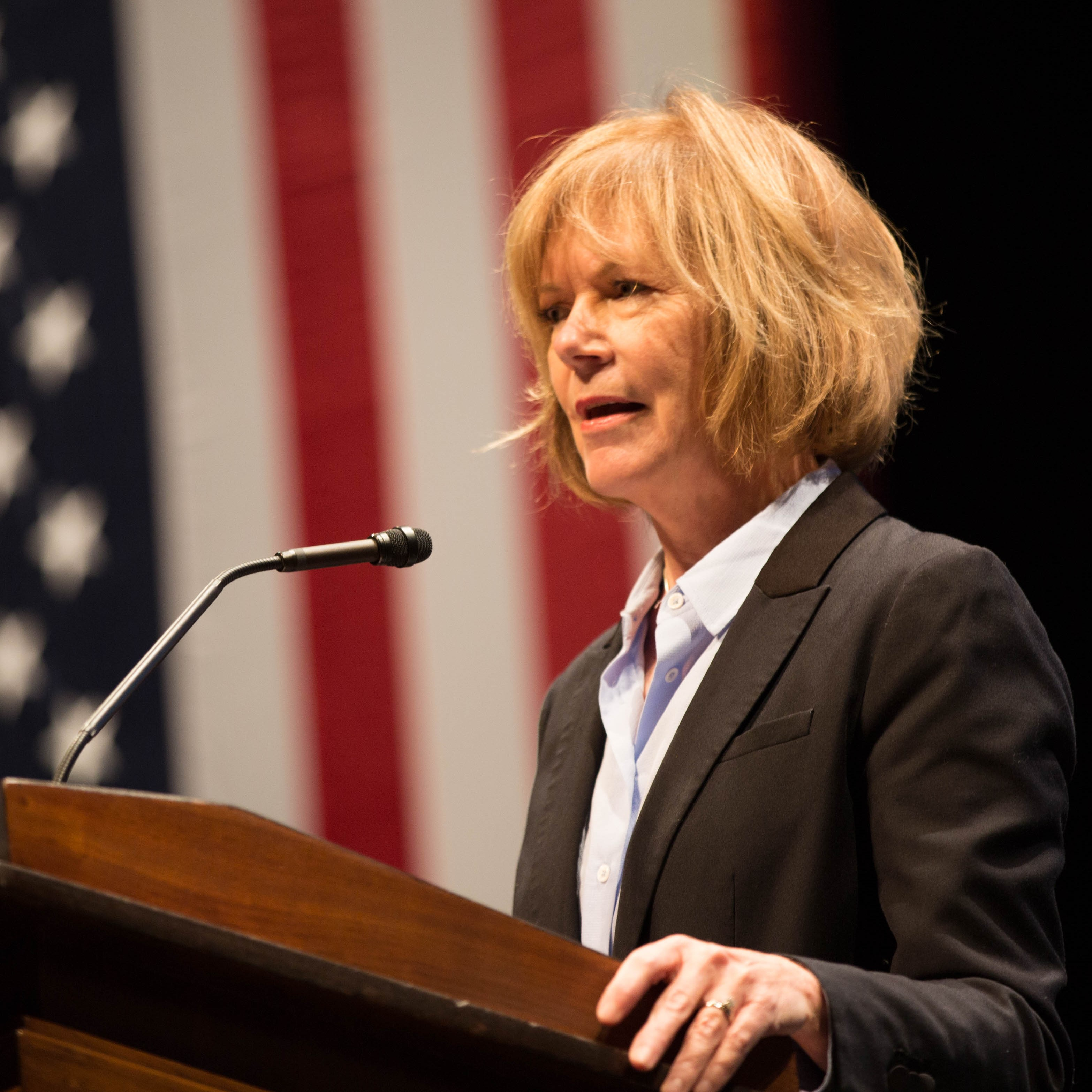 Minnesota Lieutenant Governor Tina Smith speaking at a Hillary Clinton campaign event at the University of Minnesota